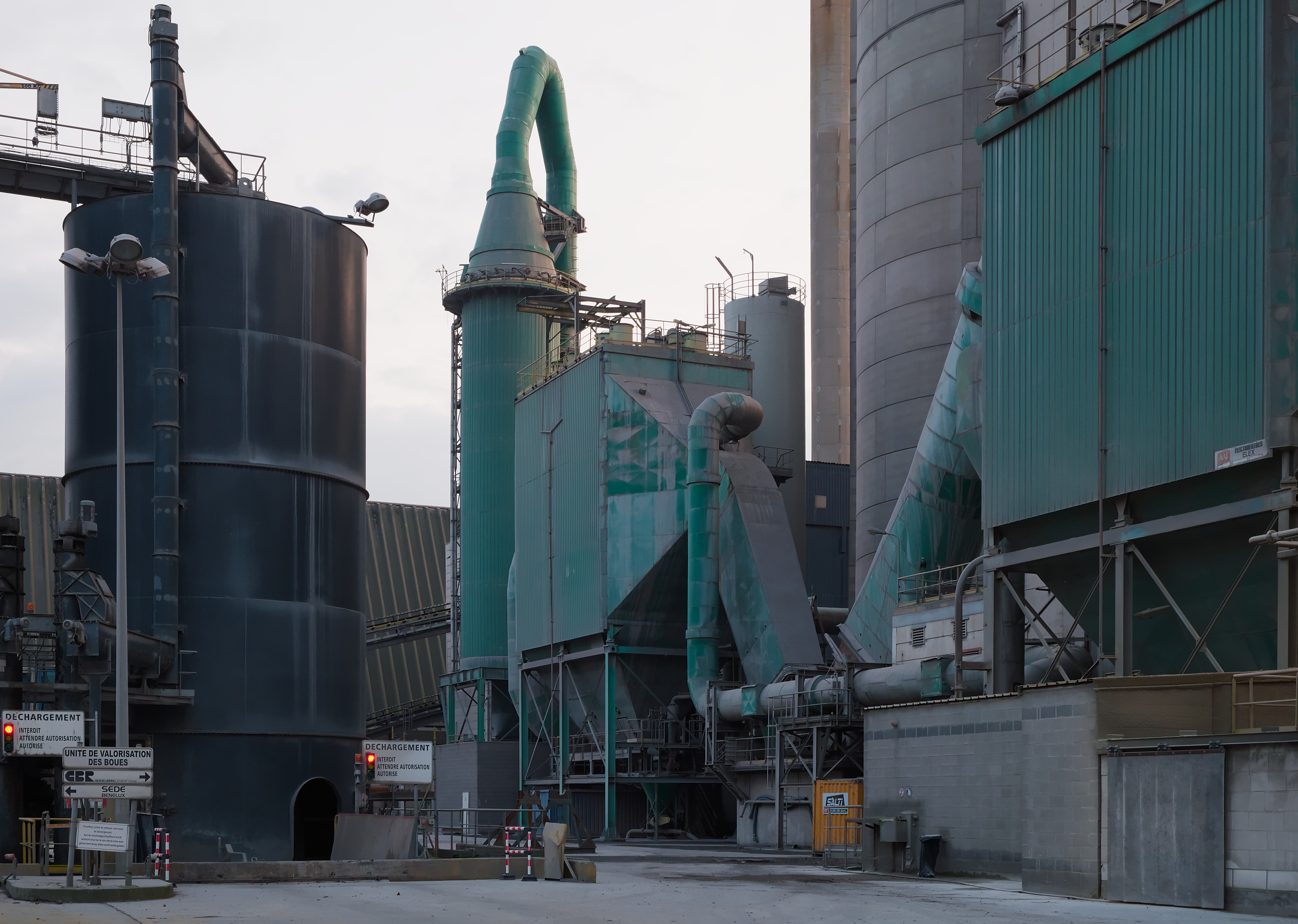 CBR cement factory in Antoing, Belgium